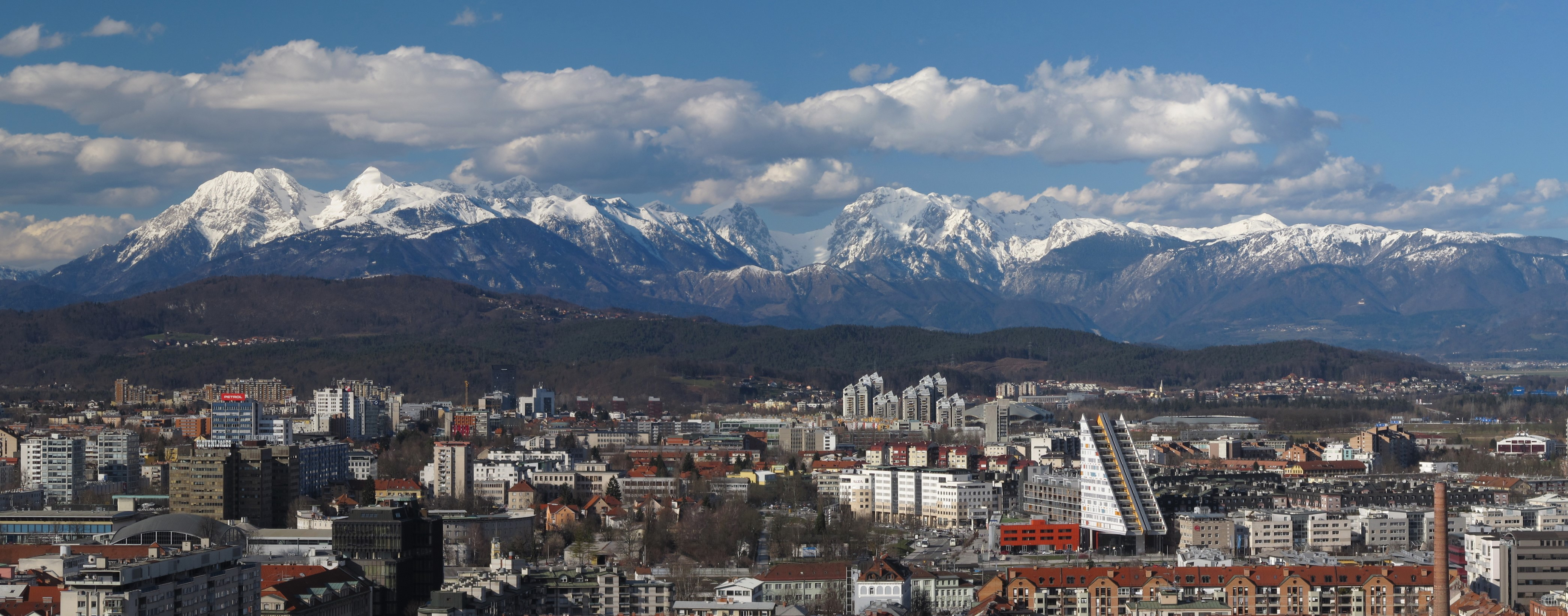 View to Kamnik-Savinja Alps from Ljubljana Castle